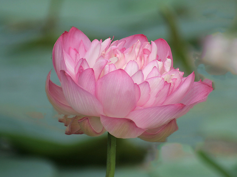 Indian Lotus Nelumbo nucifera in Kolkata, West Bengal, India.